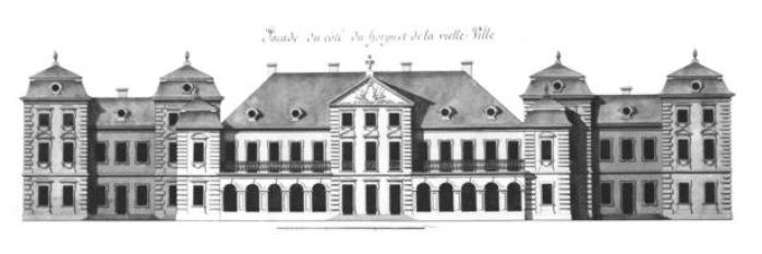 Rear facade of the Wiśniowiecki Castle in Vyshnivets.